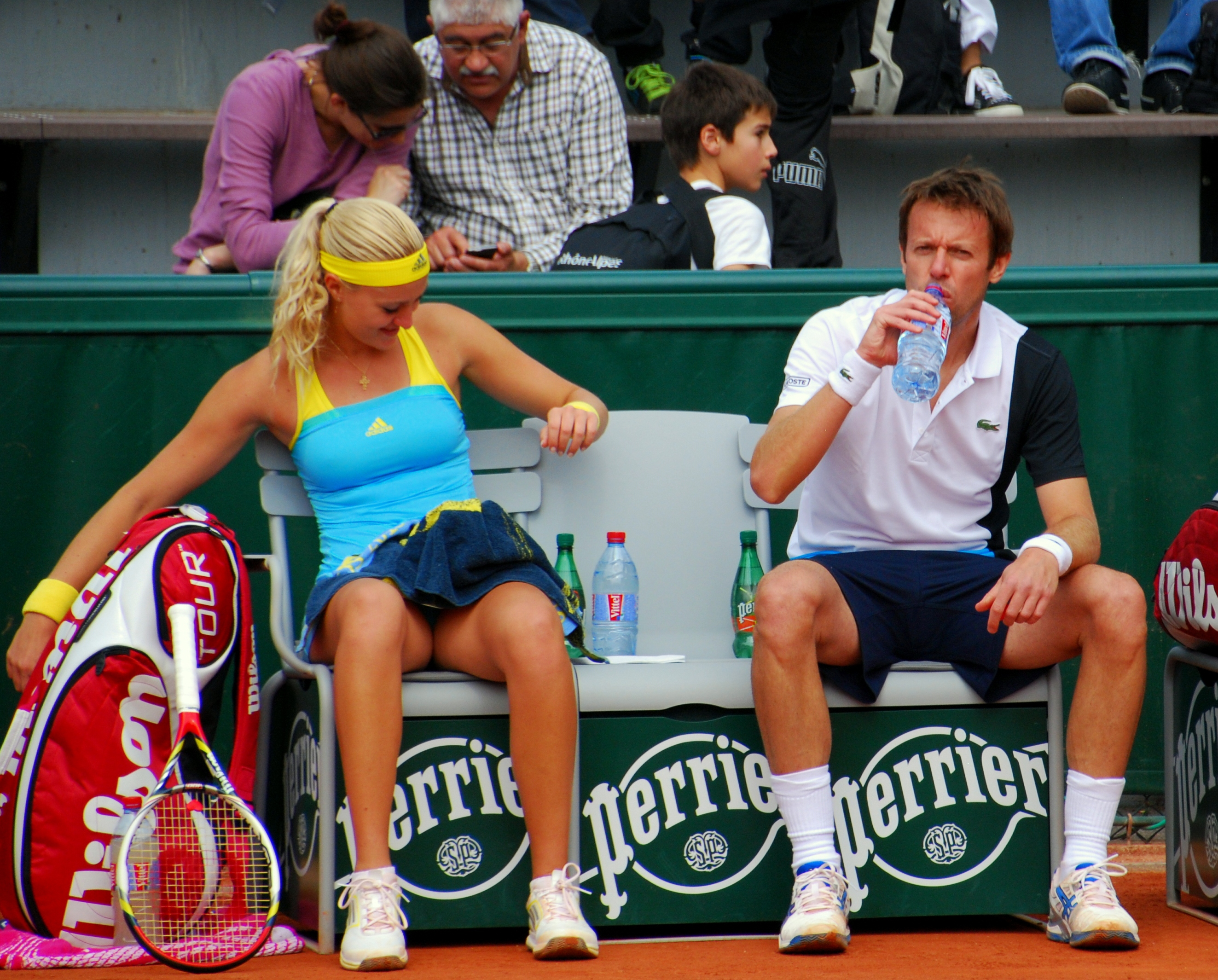 At a change of ends